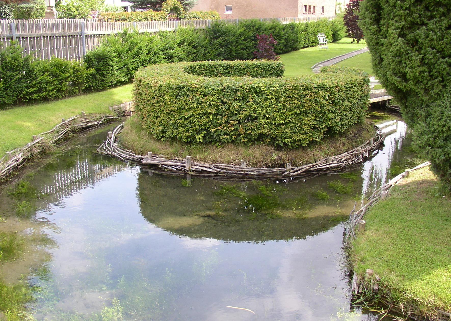 Spring of the river Leine in Leinefelde in Thuringia, Germany